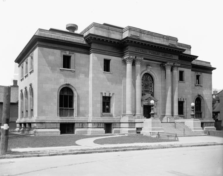 The Ottawa Public Library, at an unknown date. Location is the same as the modern-day main branch - corner of Metcalfe and Laurier.